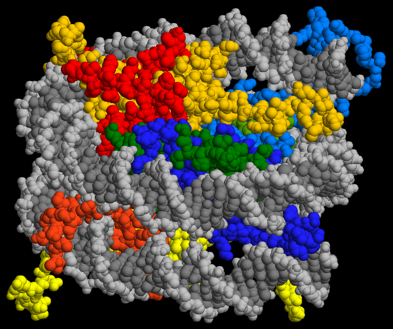 Nucleosome core particle, crystal structure (PDB ID: 1EQZ).This image was created with RasTop (Molecular Visualization Software) and Adobe Photoshop Elements.